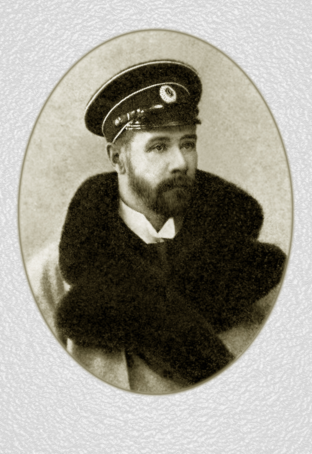 Konstantin Schullz